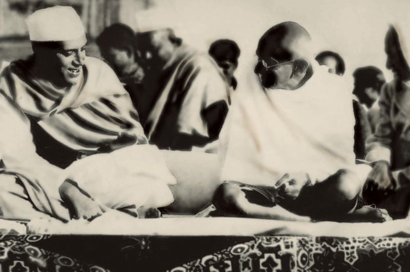 Jawaharlal Nehru with Mohandas Karamchand Gandhi in 1937. Image has been touched up. This is a public domain image, per Indian Copyright Act, 1957.